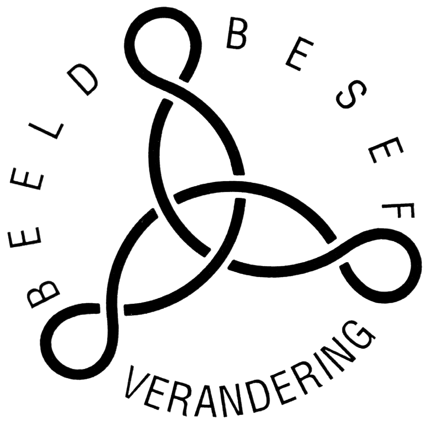 Through a distinct process of perceiving visual form - realization - change, Henck van Dijck invites the viewers to let his works lead their own imaginary lives.